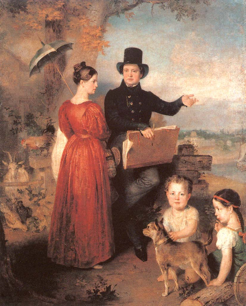 Wilhelm August Golicke "Self-Portrait with Family" (1834)